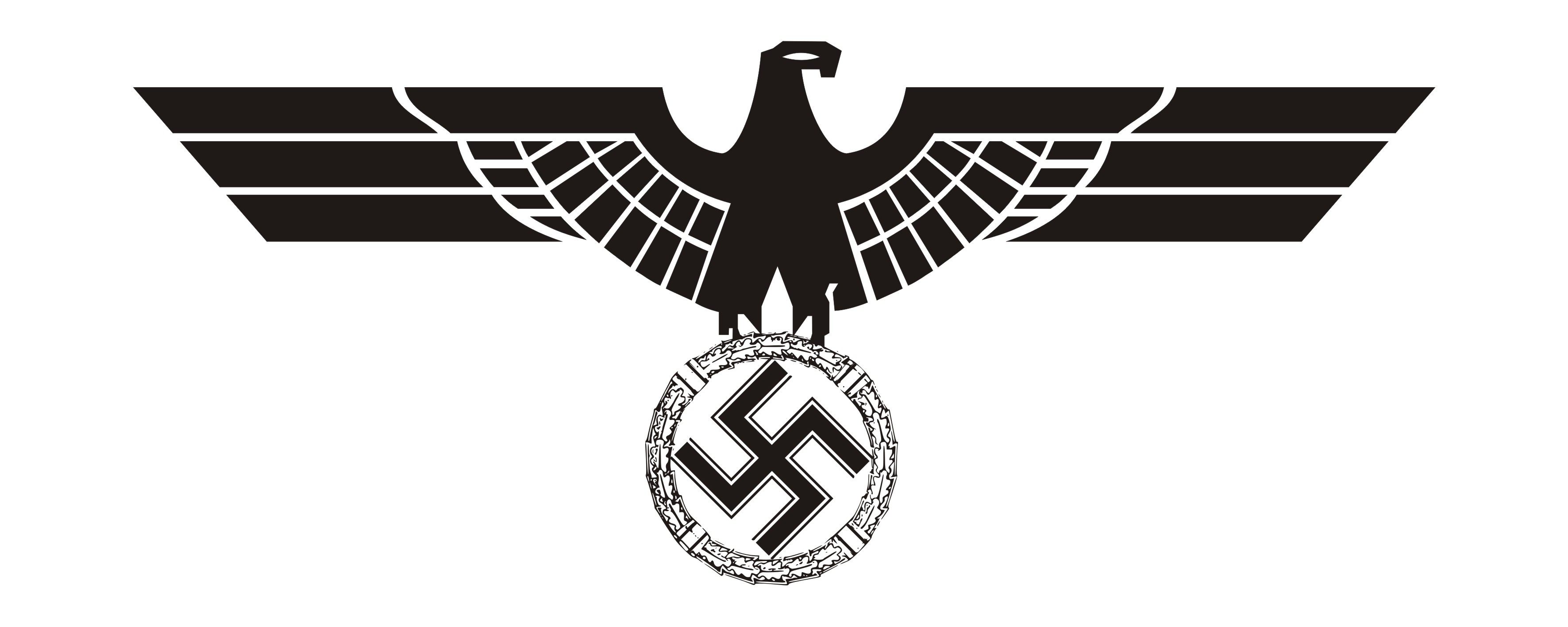 Used by Adolf Hitler Insignia